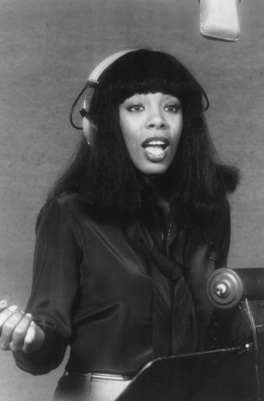 Publicity photo of singer Donna Summer in the recording studio in 1977.